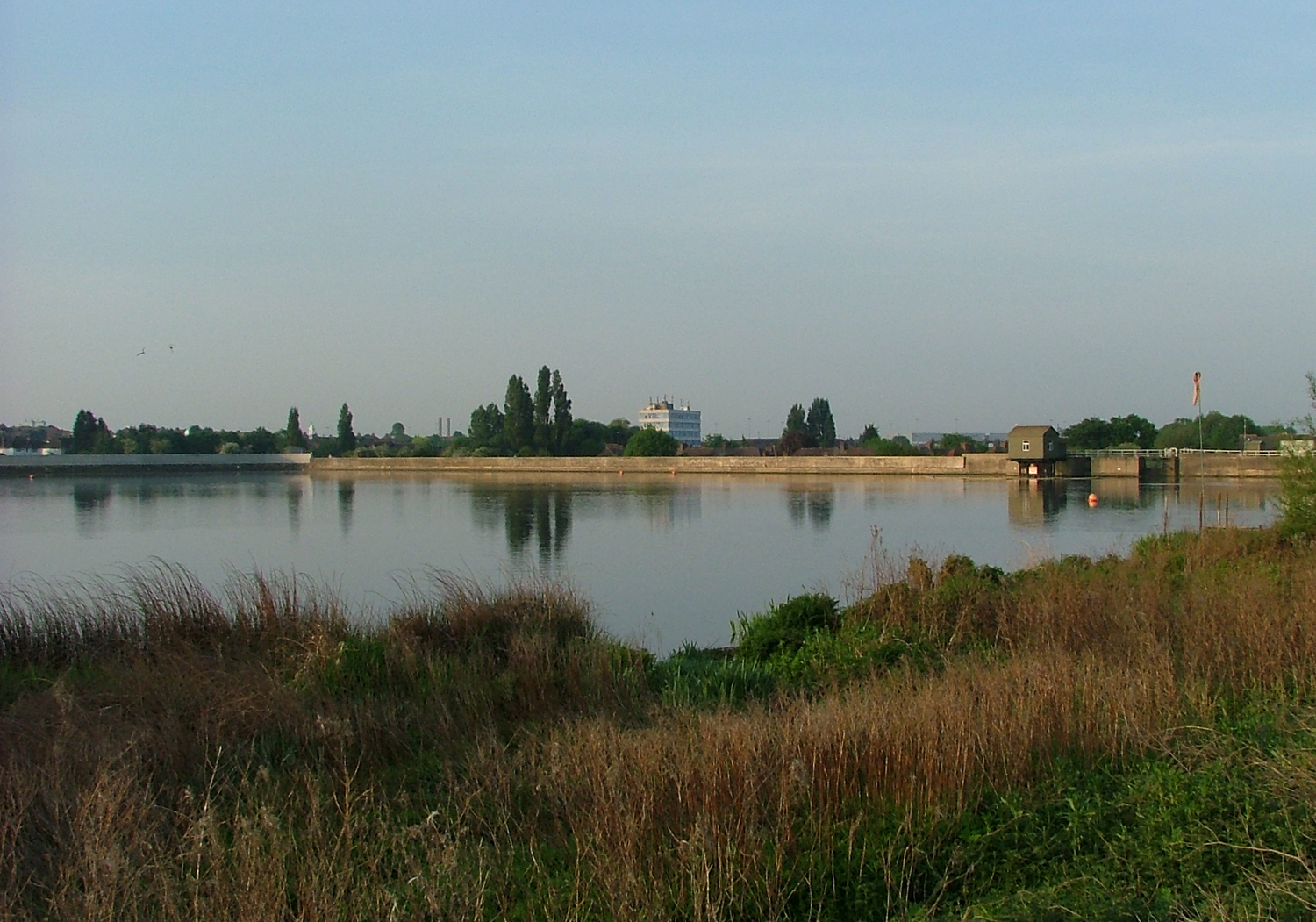 View of the dam wall of Brent Reservoir